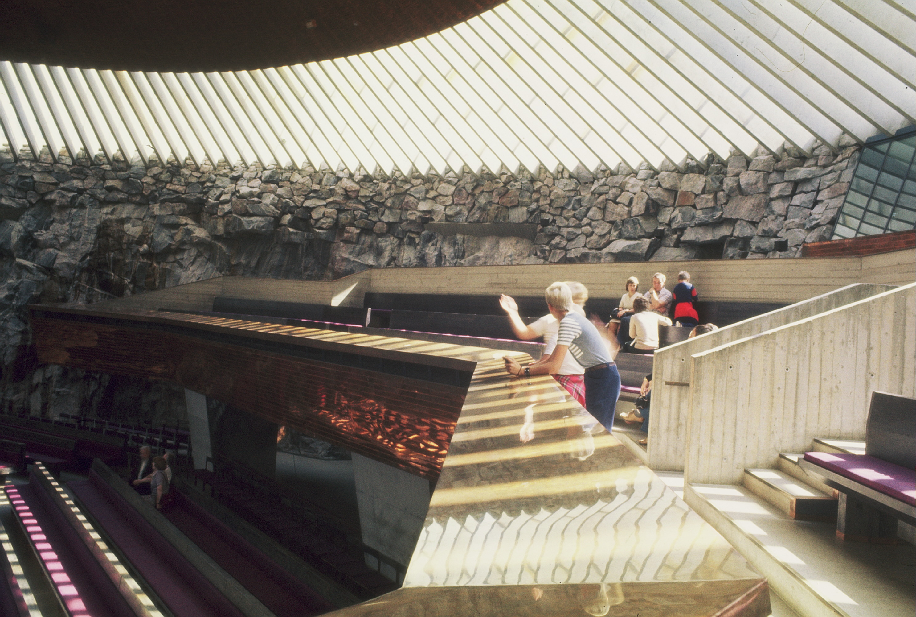 Temppeliaukio Church in Helsinki